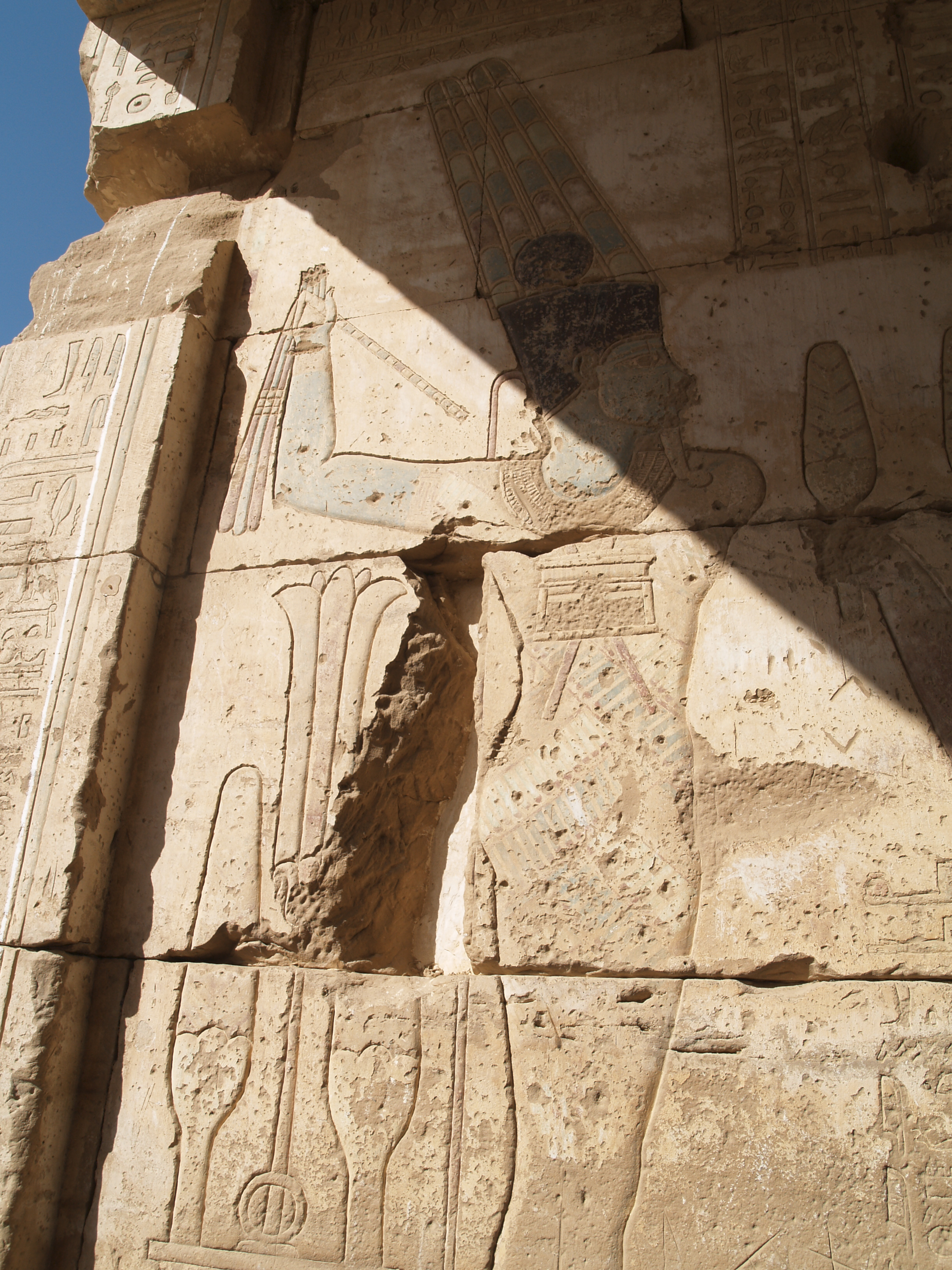 AWIB-ISAW: Hibis, Temple Decorations (VIII) A relief on the gateway of the Hibis Temple dedicated to the Theban triad (Amun, Mut & Khonsu) in the Kharga Oasis, depicting Amun Min with remaining blue pigmentation. by NYU Excavations at Amheida Staff (2006) copyright: 2006 NYU Excavations at Amheida (used with permission) photographed place: Hebet (Hibis) [1] authority: Image published on the authority of the Amheida Project Director, Roger Bagnall Published by the Institute for the Study of the Ancient World as part of the Ancient World Image Bank (AWIB). Further information: [2].